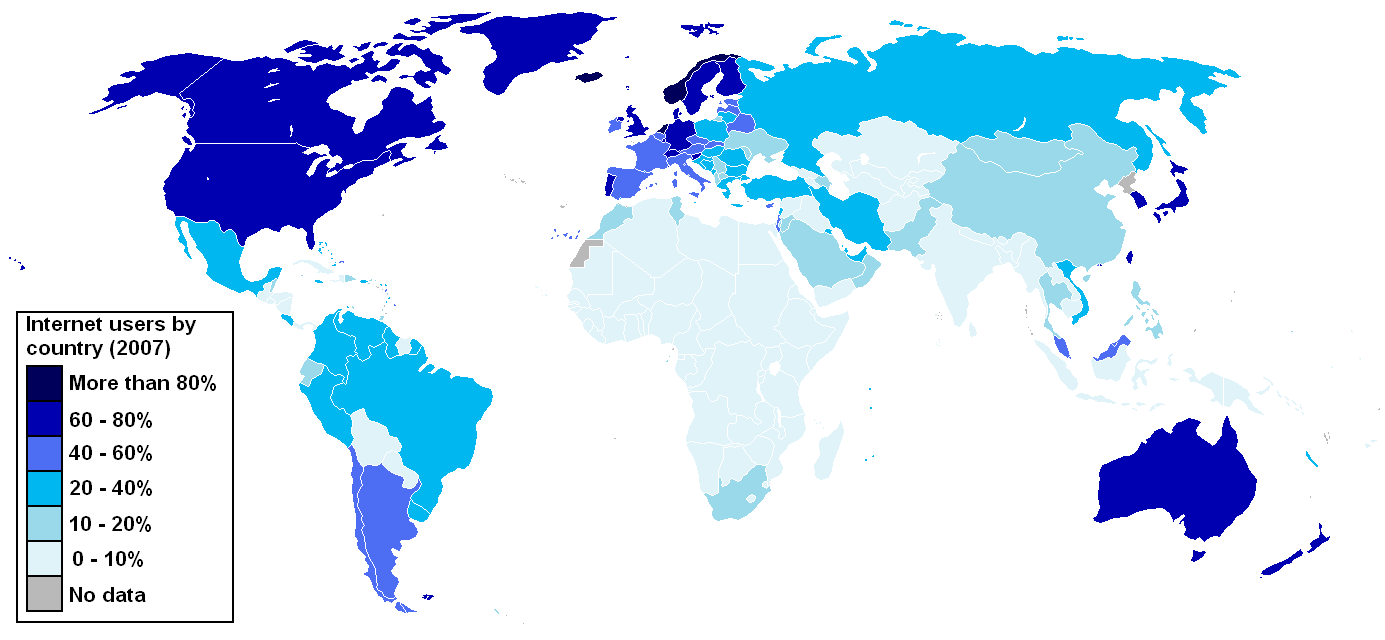 Internet users by country (%) / English Version. Based on information from the website Internet World Stats with population data from the 2007 CIA World Factbook.